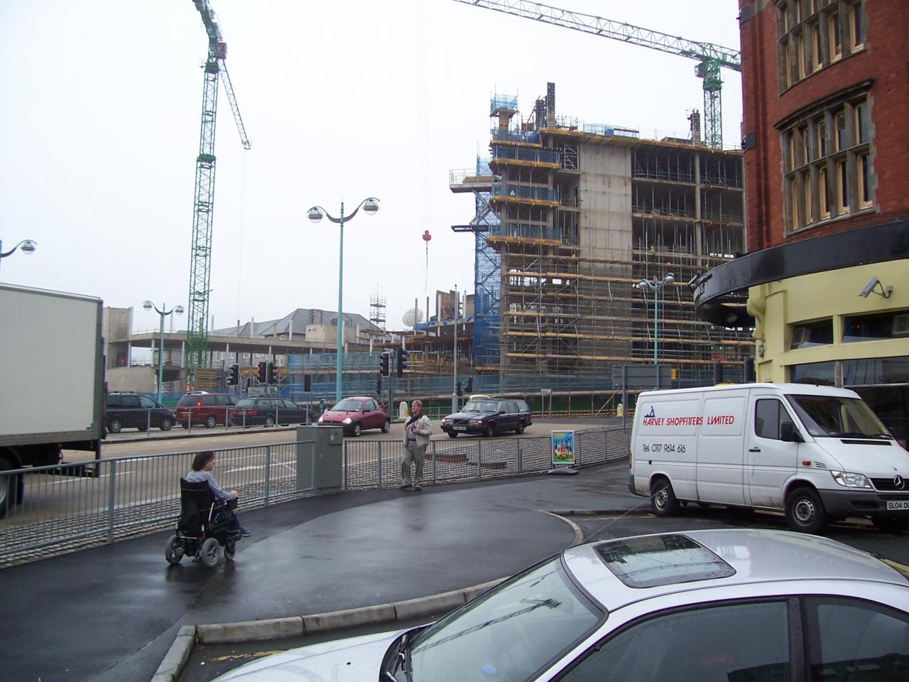 Building work on the new University of Plymouth Arts Campus, Rowe Street.